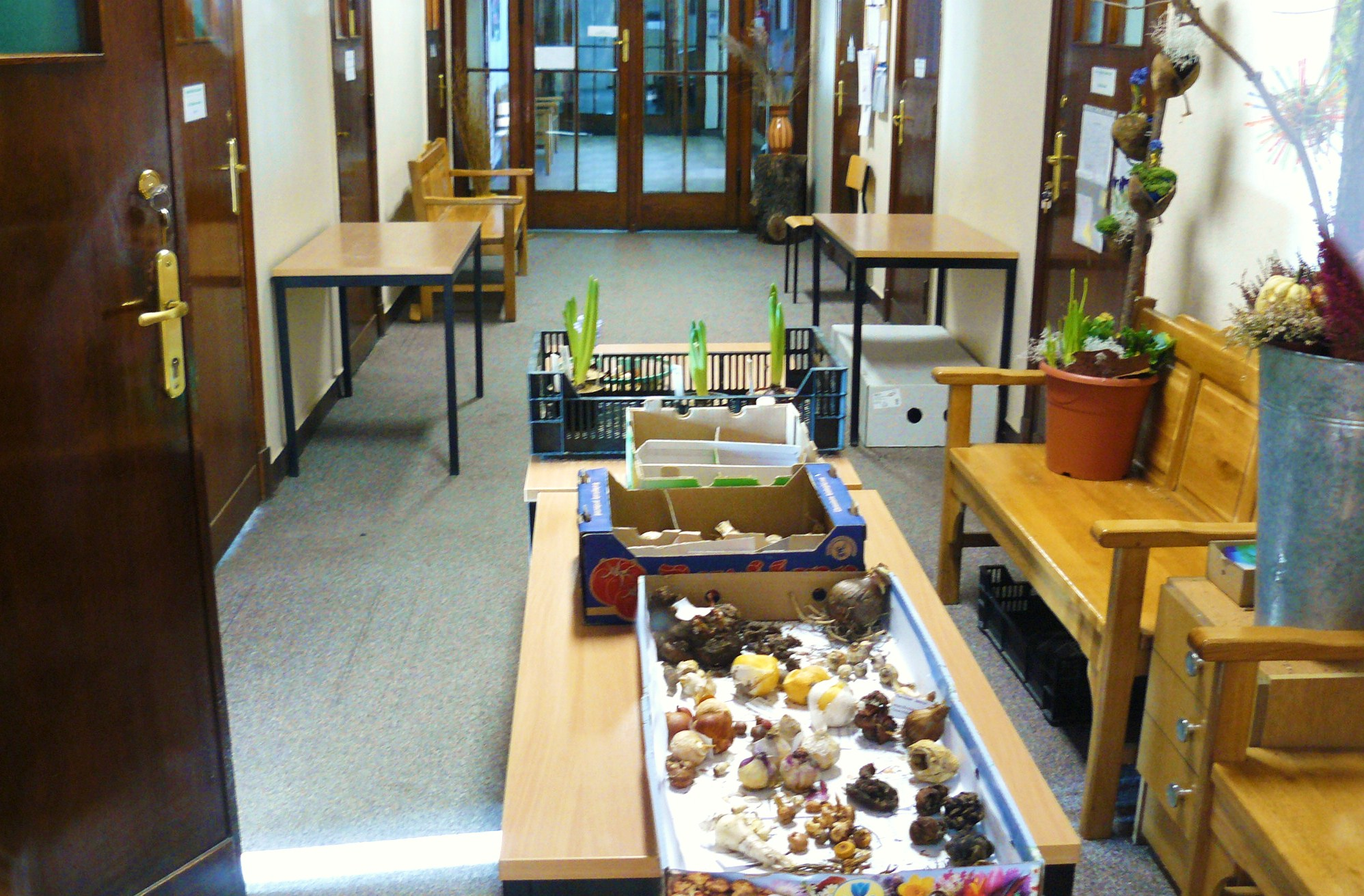 Collegium Zembala Poznan. Interior.